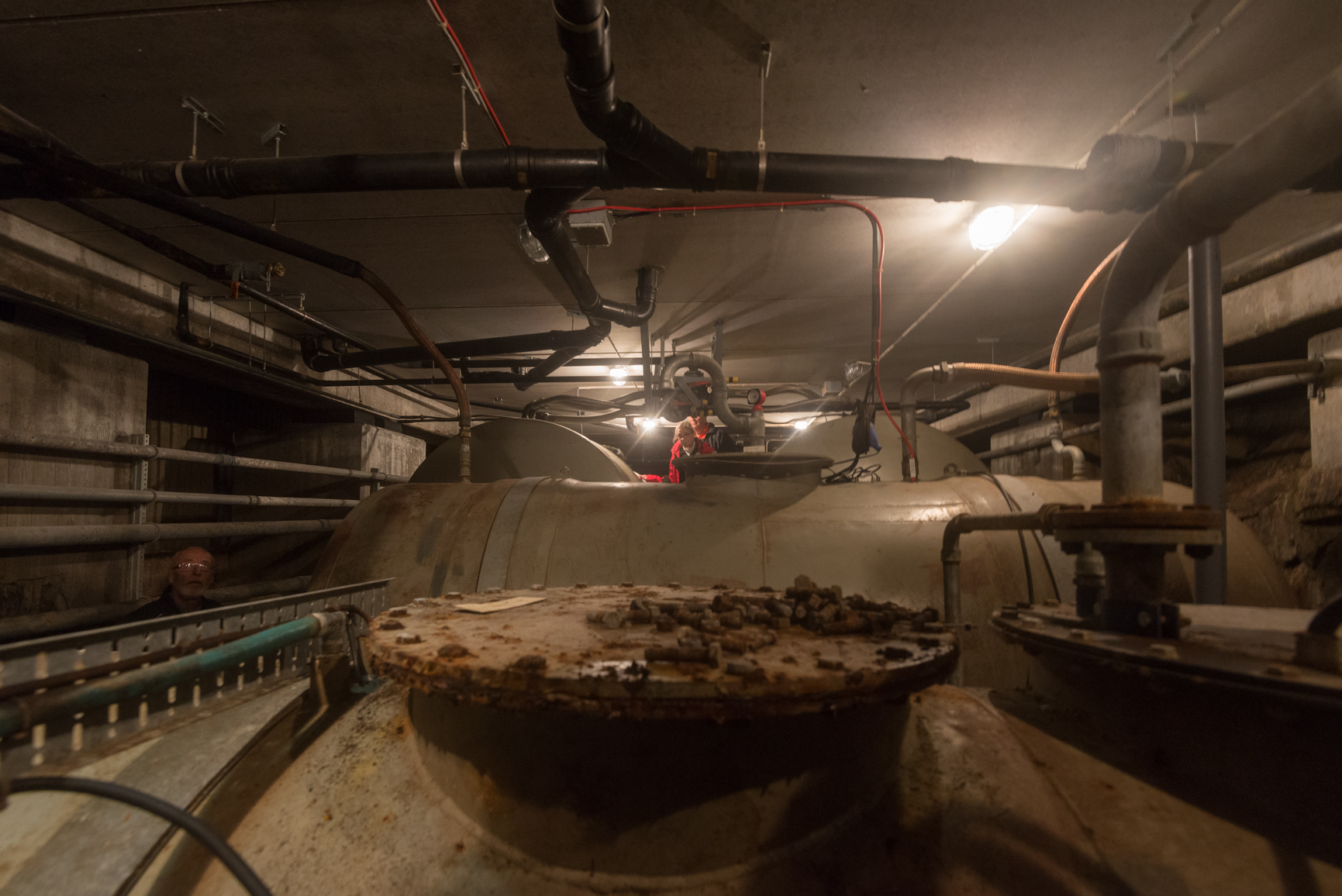 Interior of ERSTA-batteriet (Coastal artillery battery) at Landsort (Öja) in Stockholm archipelago. ERSTA was one of the Cold War’s most advanced military battery.